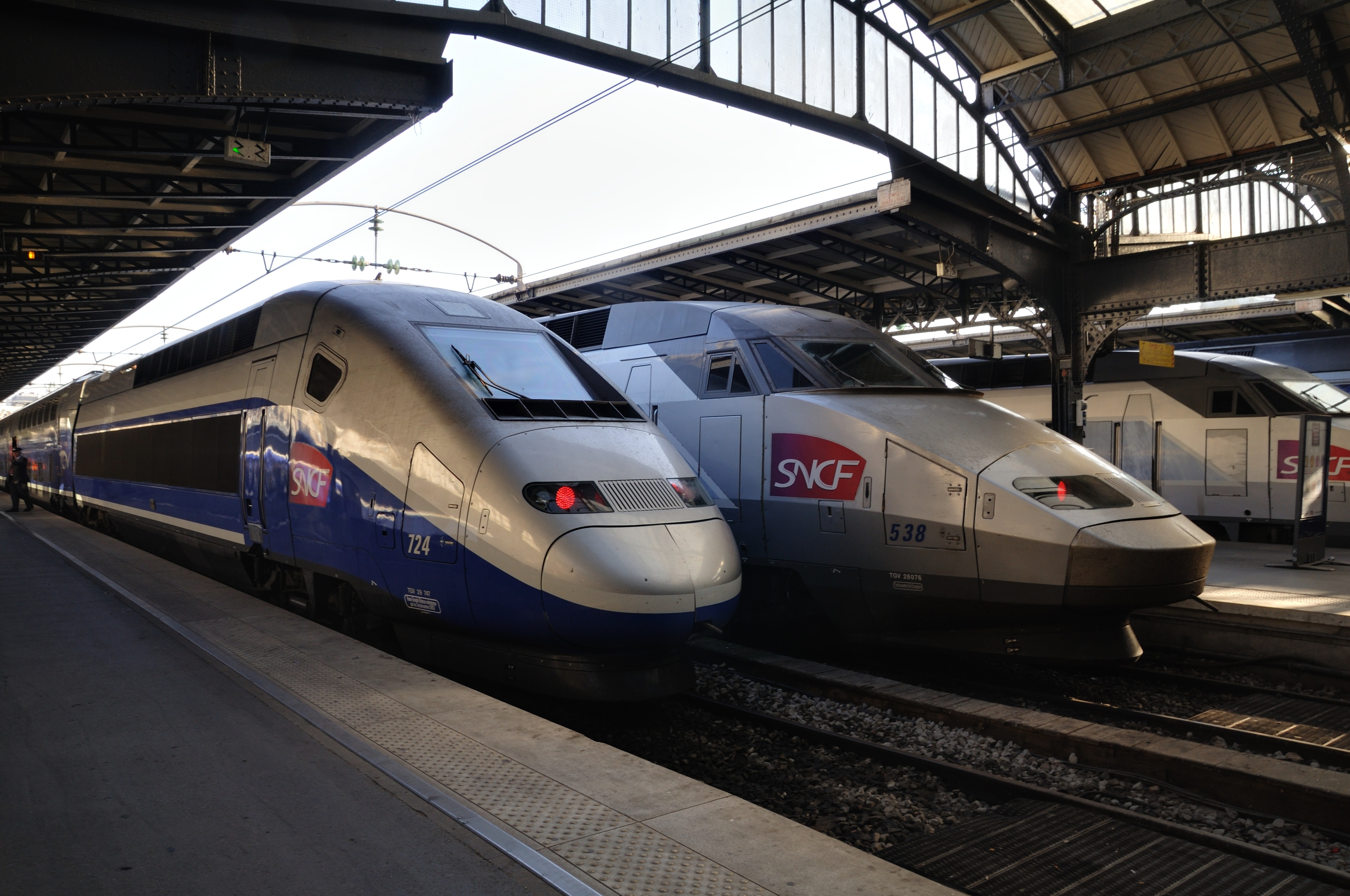 Paris: Two TGV in the Parisian East station.